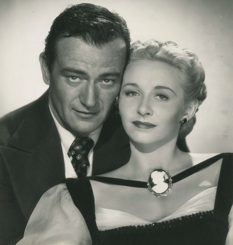 John Wayne and Vera Ralston in Dakota (1945) - publicity still (cropped : see source).